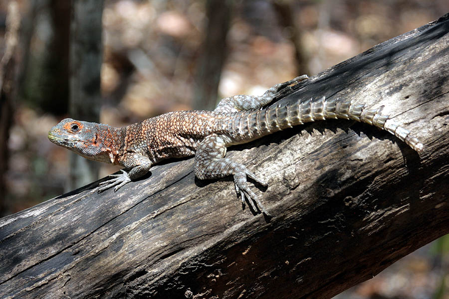 Oplurus cuvieri at the Kirindy Forest Reserve, Madagascar